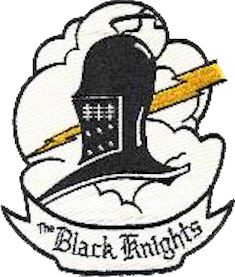 57th Fighter-Interceptor Squadron - 1950s - Emblem